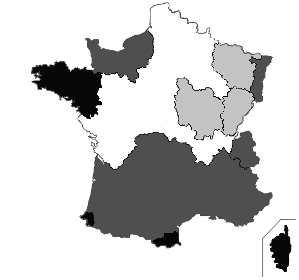 Black: autonomist or separatist movements major. Dark gray: autonomist or separatist movements that participated in elections. Light gray: autonomist or separatist movement minimal.